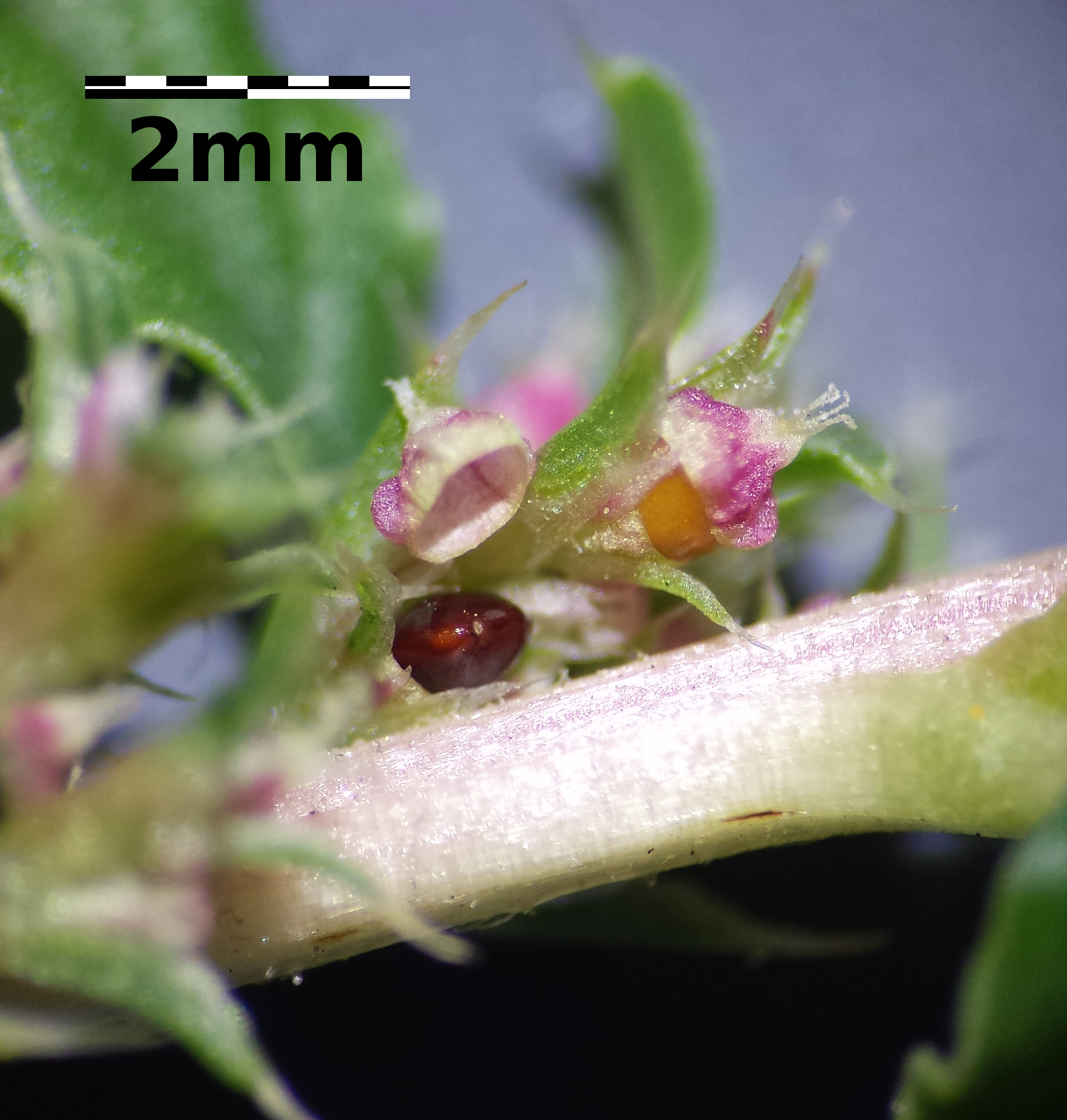 Fruits, just opened Taxon: Amaranthus albus (sensu Fischer et al. EfÖLS 2008 ISBN 978-3-85474-187-9) Location: Floridsdorf rail station, Vienna-Floridsdorf - ca. 160 m a.s.l. Habitat: ruderal area